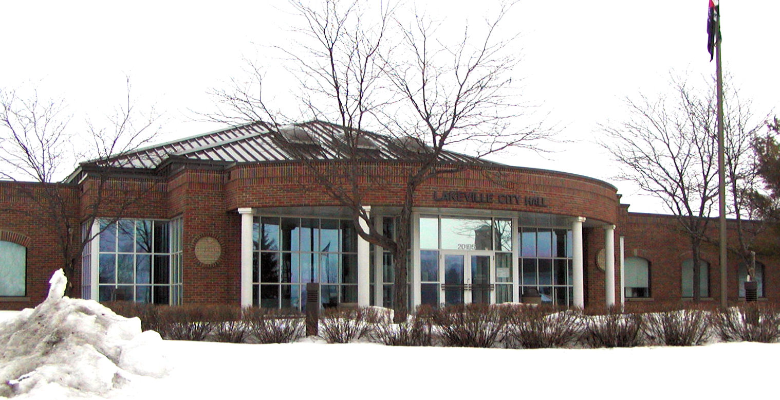 City Hall in Lakeville, Minnesota